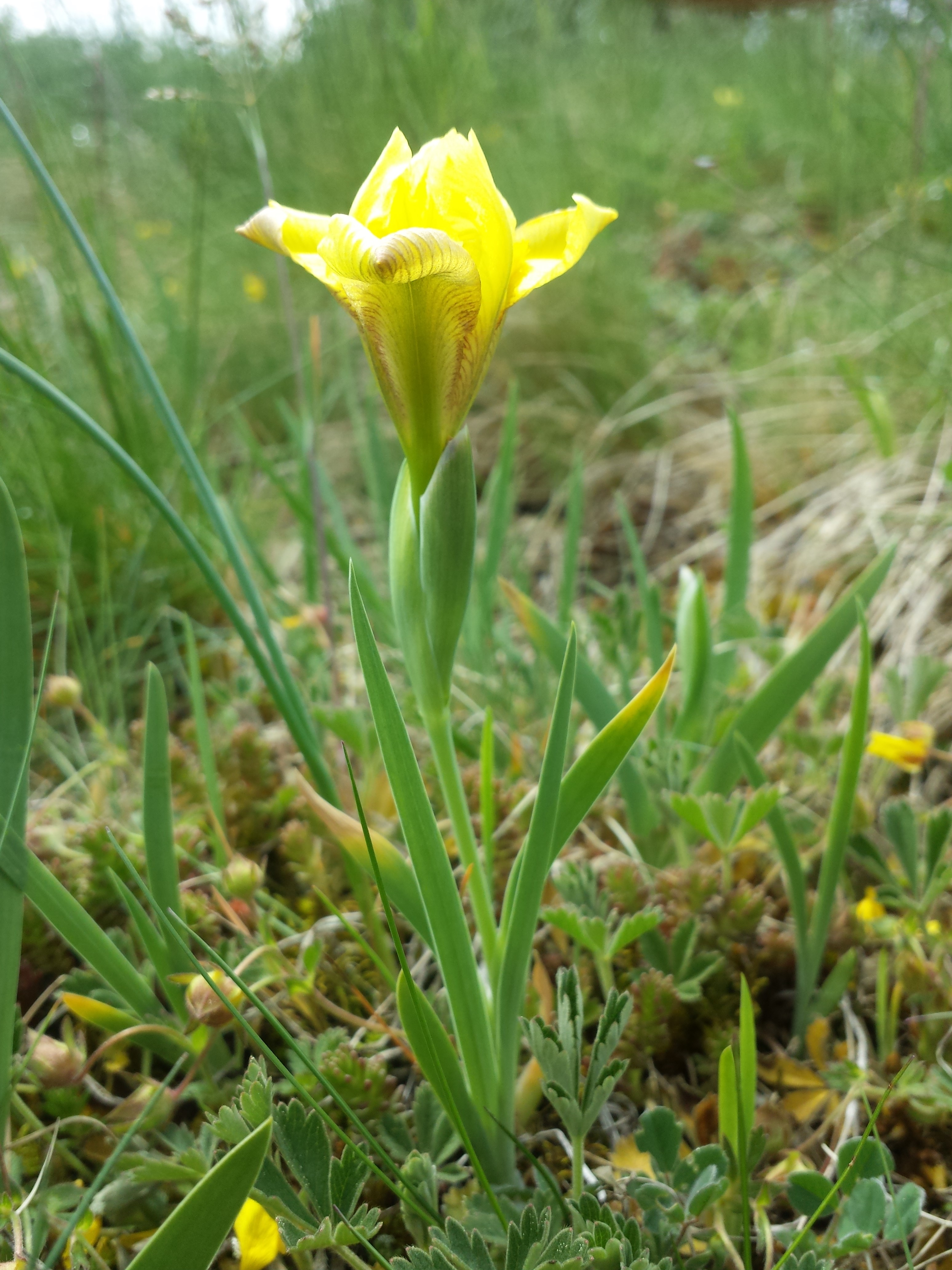 Habitus Taxonym: Iris humilis subsp. arenaria (ss Fischer et al. EfÖLS 2008 ISBN 978-3-85474-187-9) Location: dry grassland NW to Bründlkapelle, district Hollabrunn, Lower Austria - ca. 340 m a.s.l. Habitat: dry grassland This media shows the natural monument in Lower Austria with the ID HL-032b.